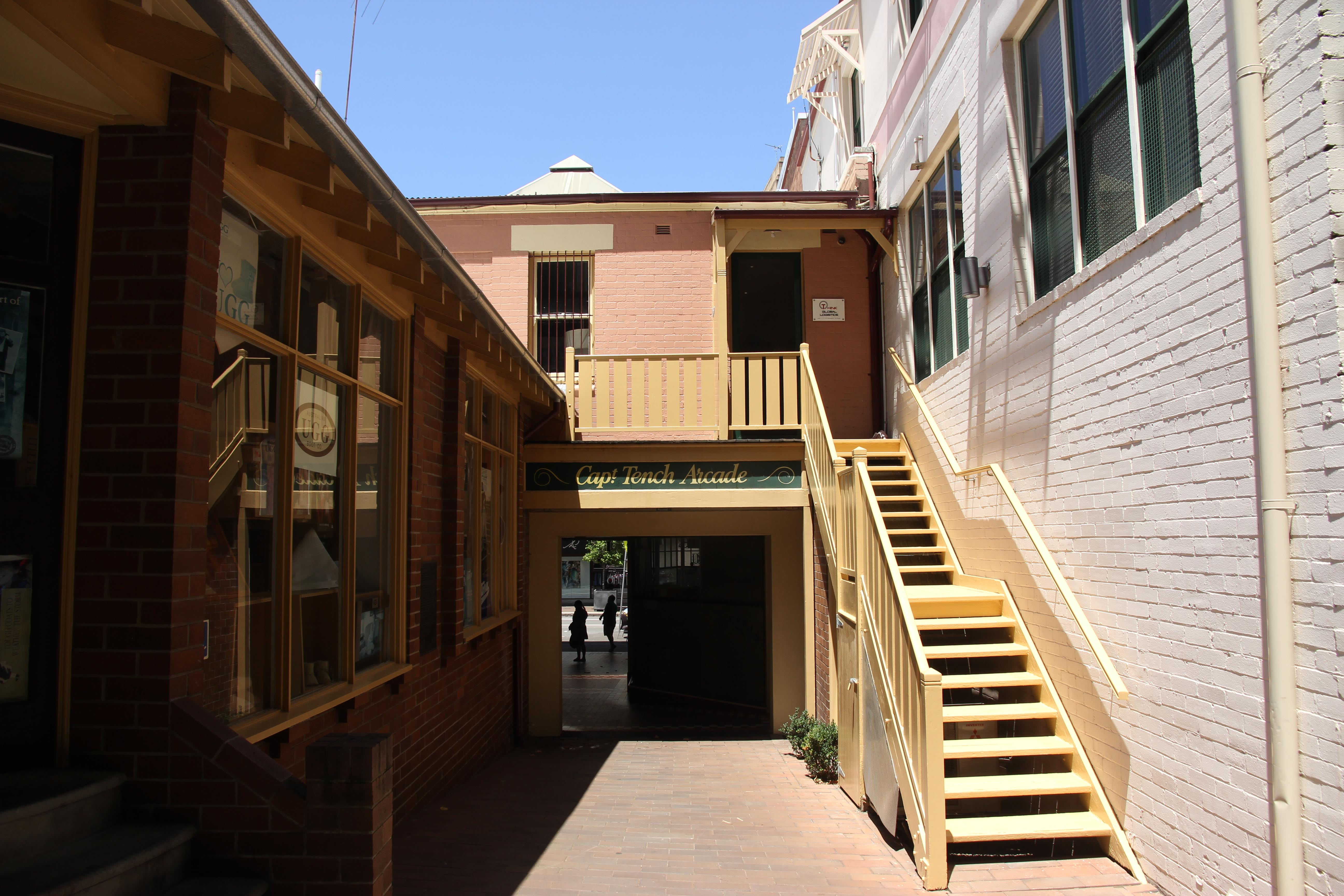 Captain Tench Arcade, located between George Street and The Nurses' Walk in The Rocks in the City of Sydney, New South Wales, Australia